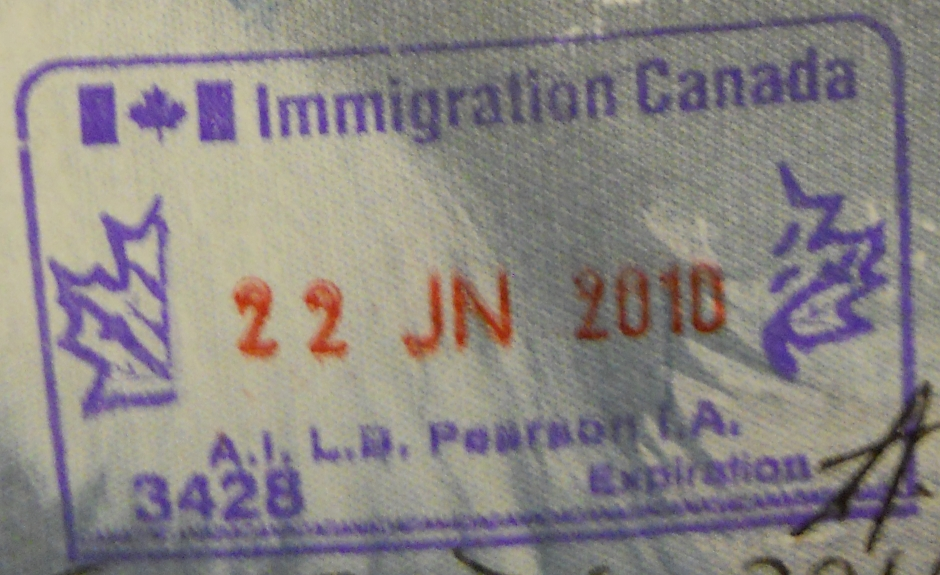 Passport Stamp issued by Immigration Canada at Toronto Lester B. Pearson Airport.